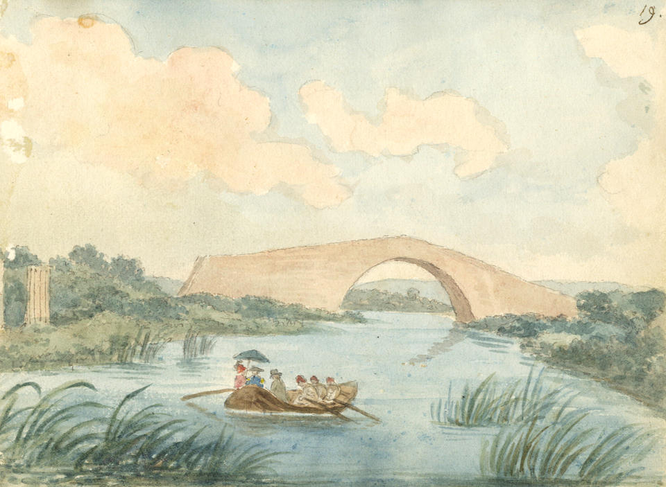 Admiral Nelson and Lady Hamilton at river Anapo (Syracuse) 1800, watercolor by Ellis Cornelia Knight; present during the trip.